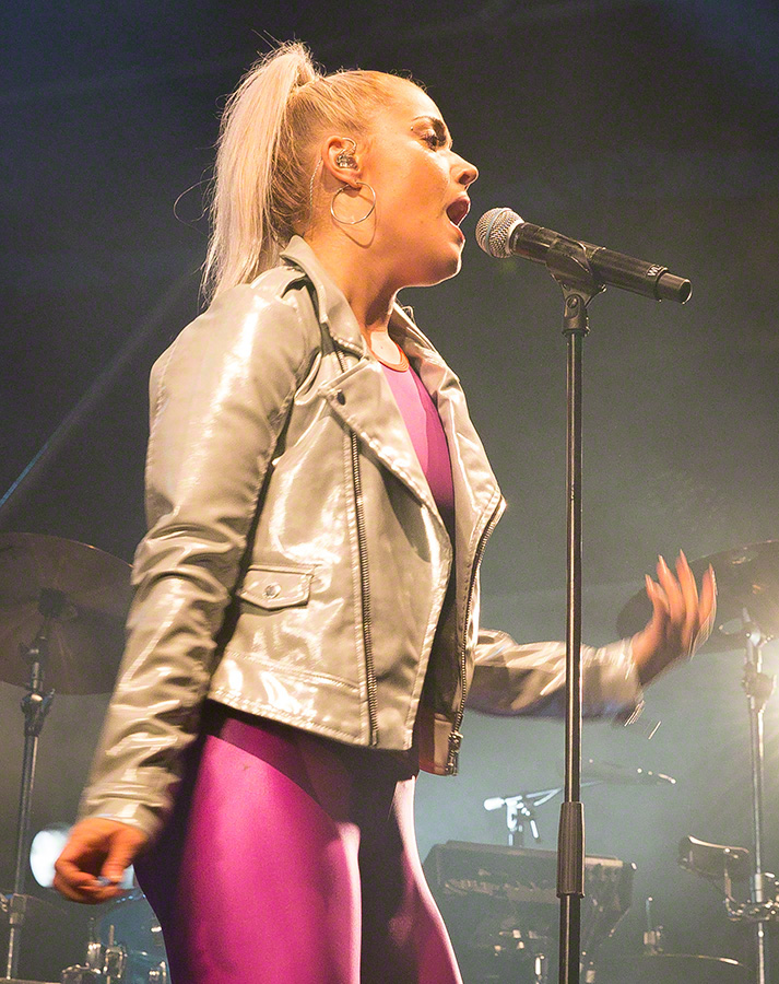 Julie Bergan at the minor stage during Stavernfestivalen in Stavern on 08. July 2016. Lineup:Julie Bergan (vocal)